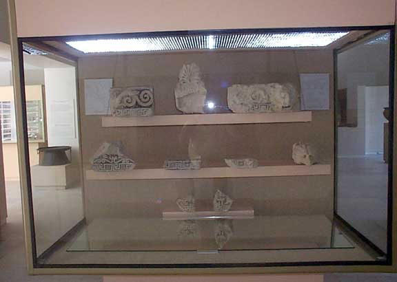 Clay Members of the Sanctuary of Ammon Zeus at Afytos, image from the Archaeological Museum, Poliyiros, Central Macedonia, Greece